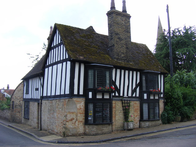 St Mary's Cottage Built circa 1550